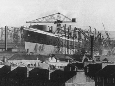 The giant Queen Elizabeth, growing on the stocks.